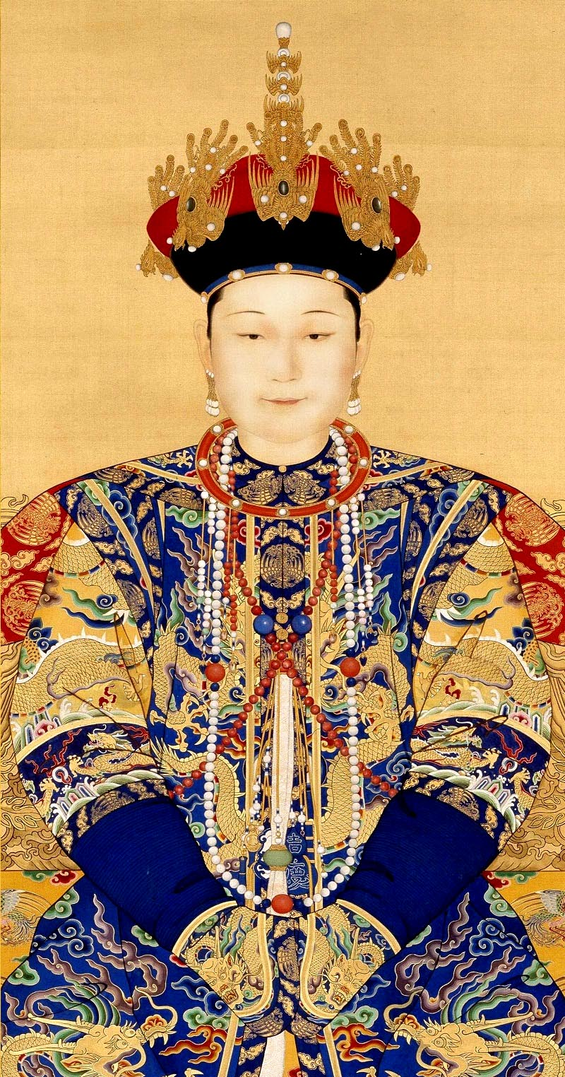 Empress Hui Zhang, the second Empress Consort of the Qing Dynasty Shunzhi Emperor of China.